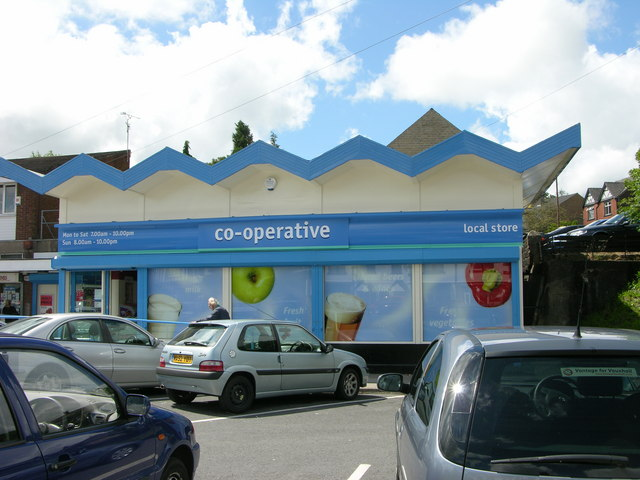 New Co-op Holcombe Brook New refurbished co-op has replaced the old Fourways which is still sadly missed!